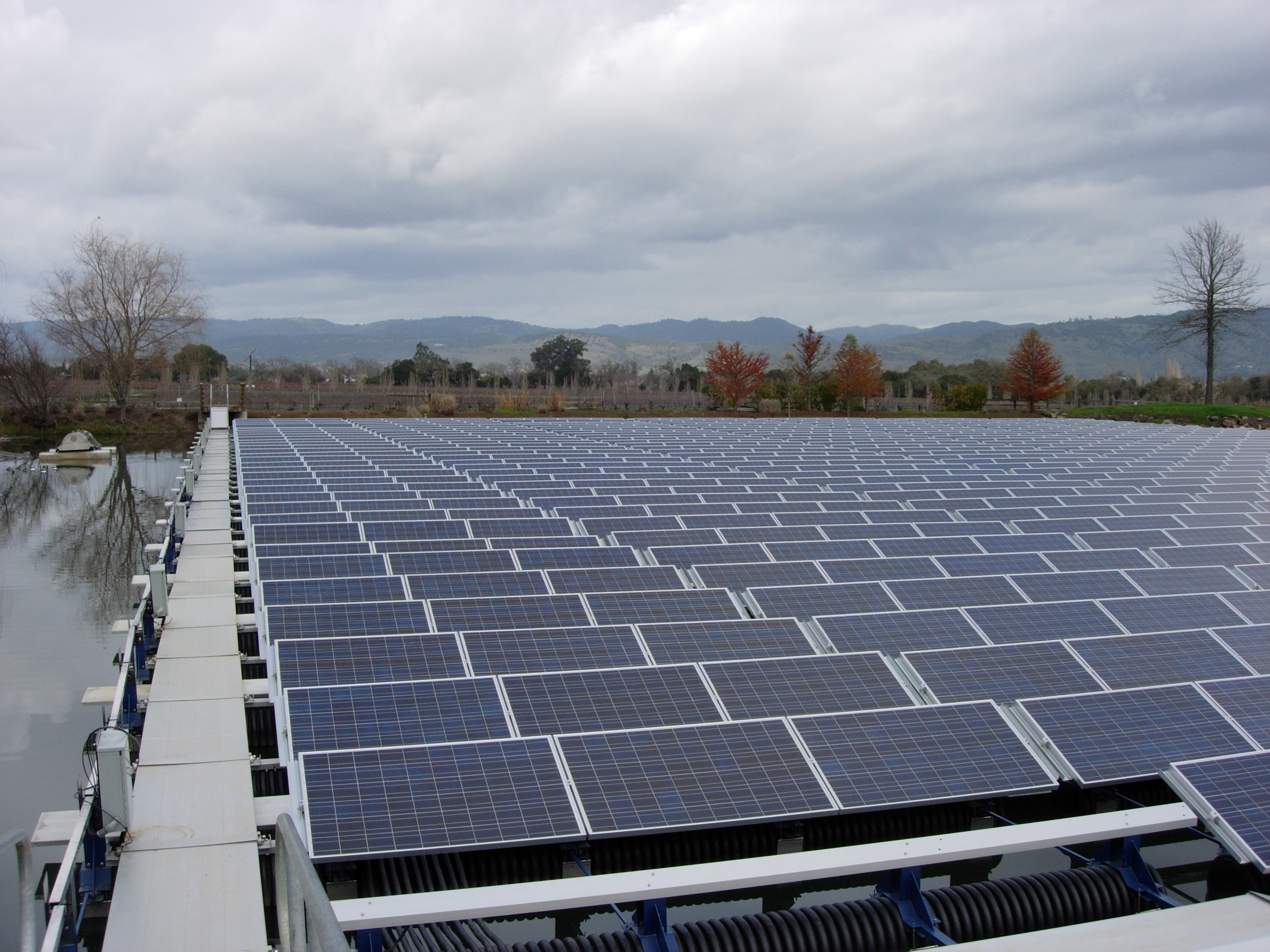 Far Niente vineyard in Napa Valley, California; a floating solar system (top, "flotovoltaic") erected on the winery’s irrigation pond